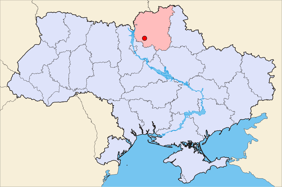 Description = Chernihiv geographical position Source = own work, User:DDima Date = 20.01.2006 Author = User:DDima Credits = Colours chosen according to a map of steschke